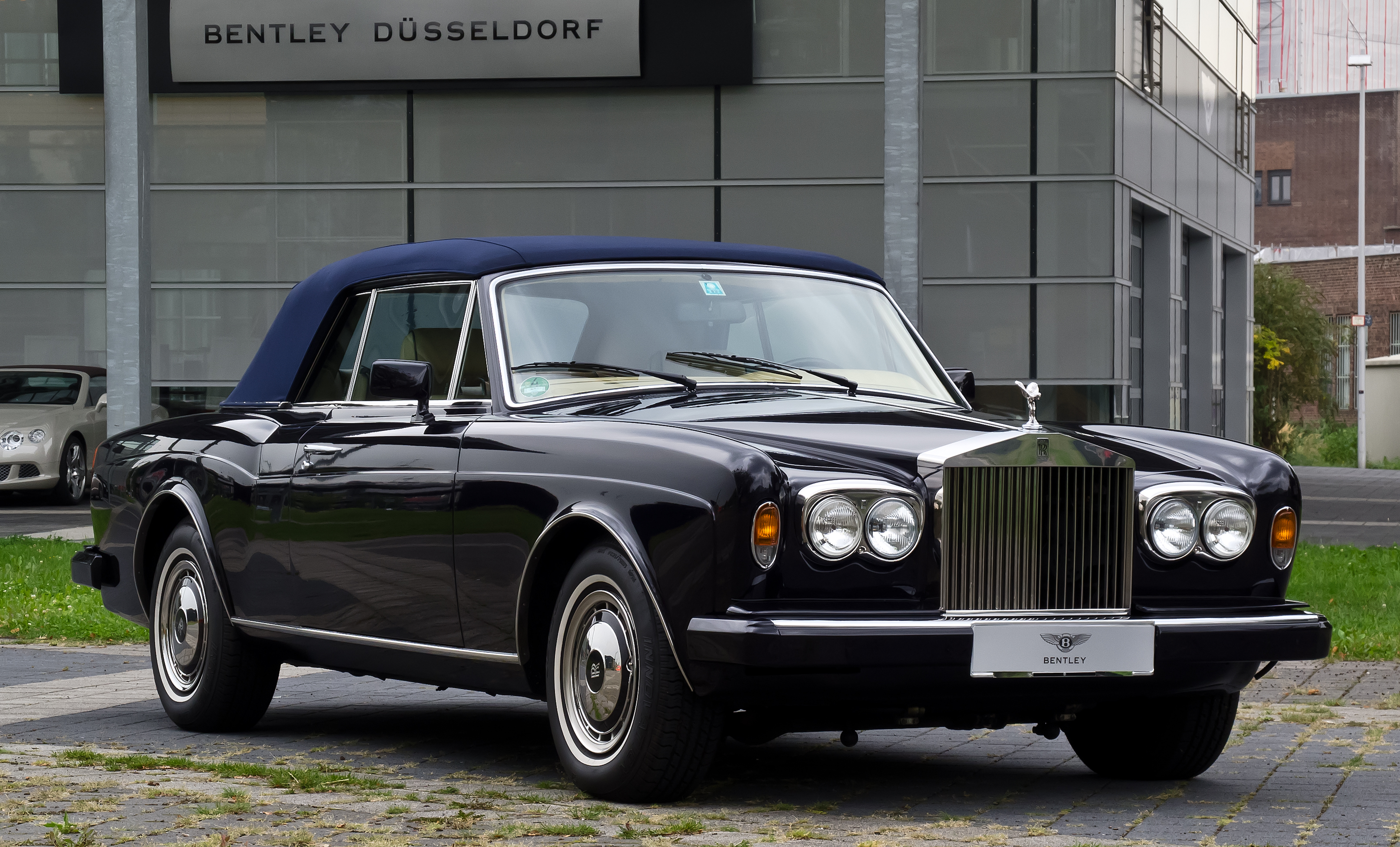 Rolls-Royce Corniche (III)